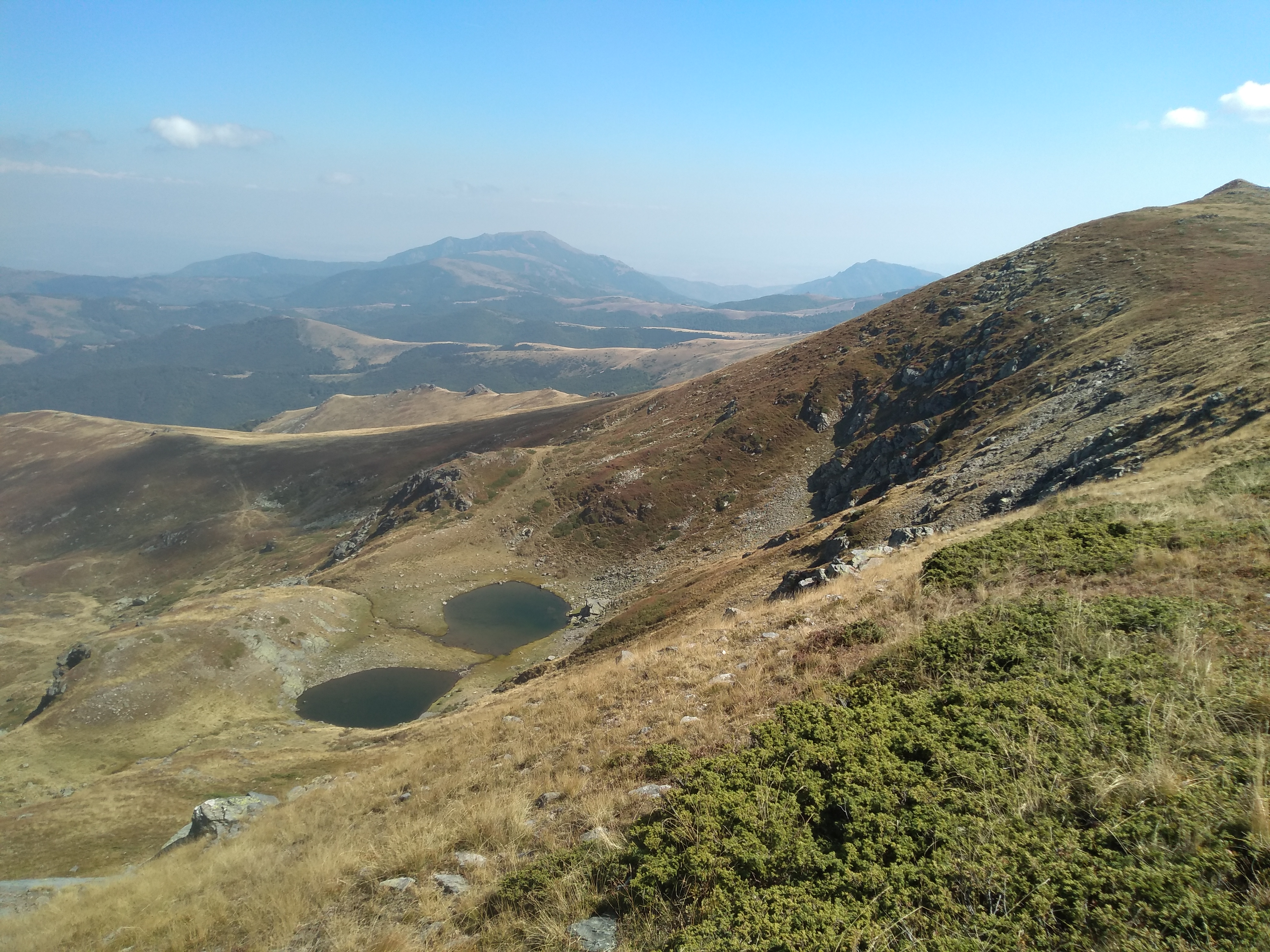 Salakovo glacial lakes on Jakupica-Karadzica (Mokra) mountain Massif, Macedonia